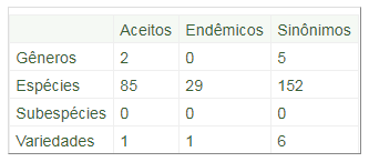 Distribution of Lentibulariaceae in Brazil.